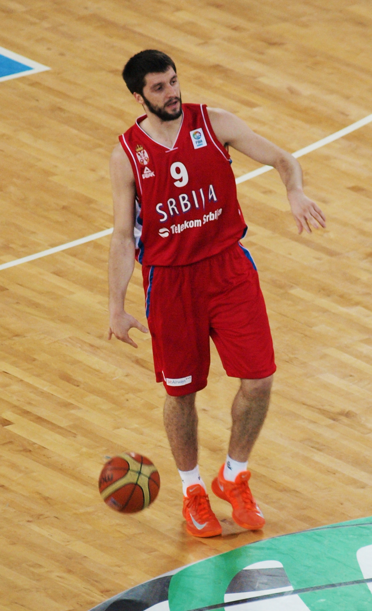 Stefan Marković playing for Serbia on Eurobasket 2013. Српски (ћирилица): Стефан Марковић на Еуробаскету 2013 у Словенији.